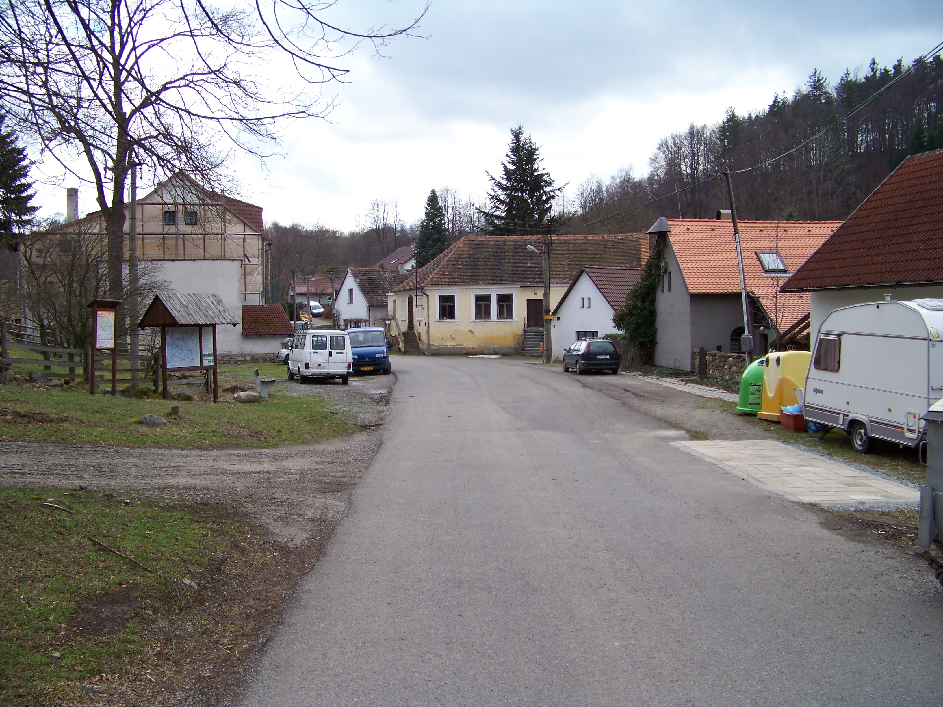 Sedlec-Prčice-Myslkov, Příbram District, Central Bohemian Region, the Czech Republic. A common.